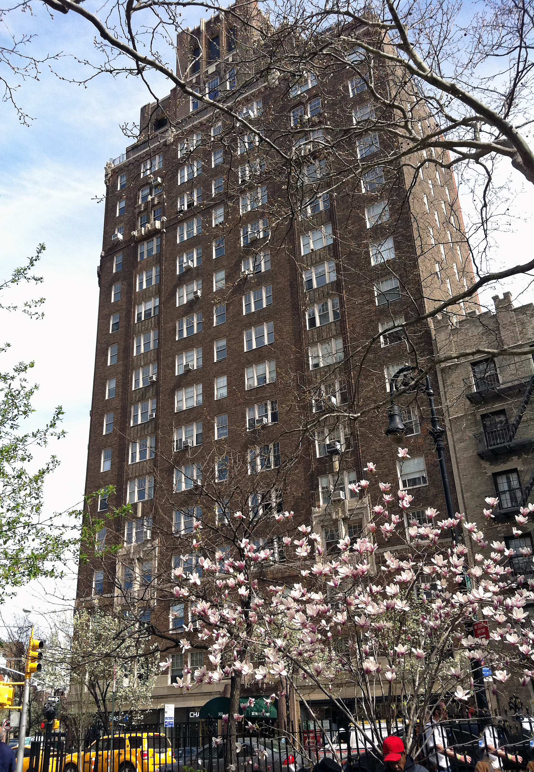 302 West 12th Street, New York City.